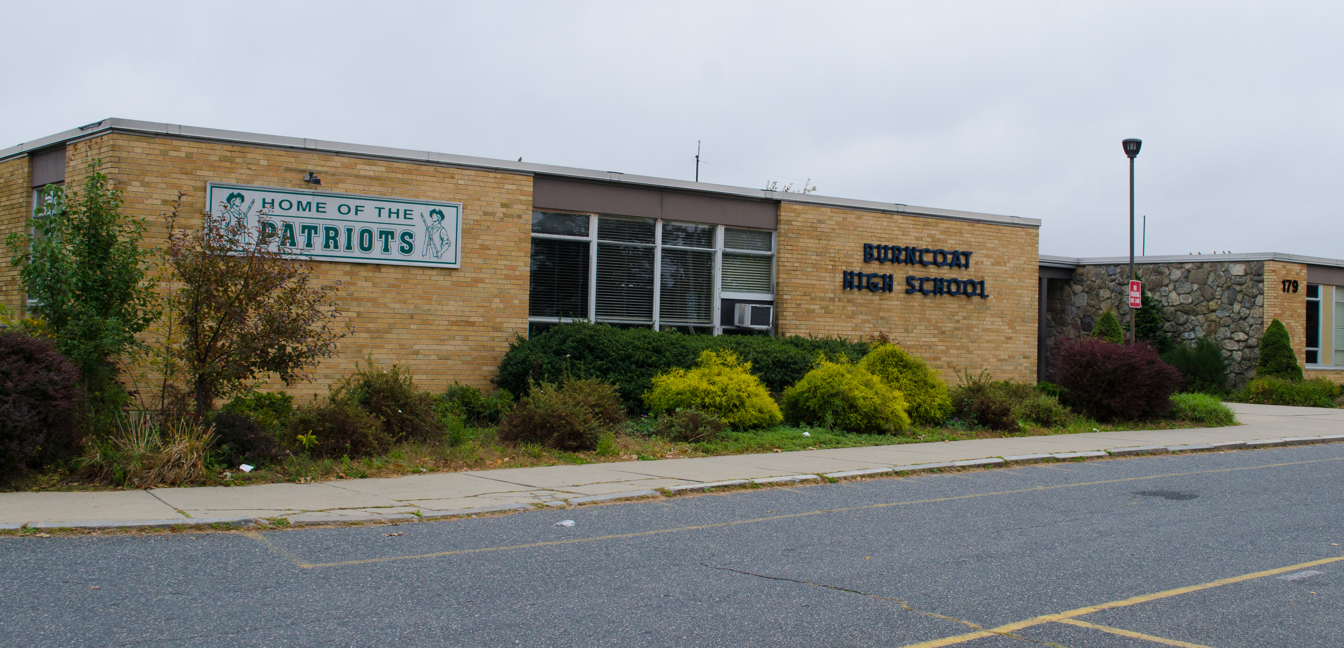 The exterior main building of Burncoat High School in Worcester, Massachusetts.